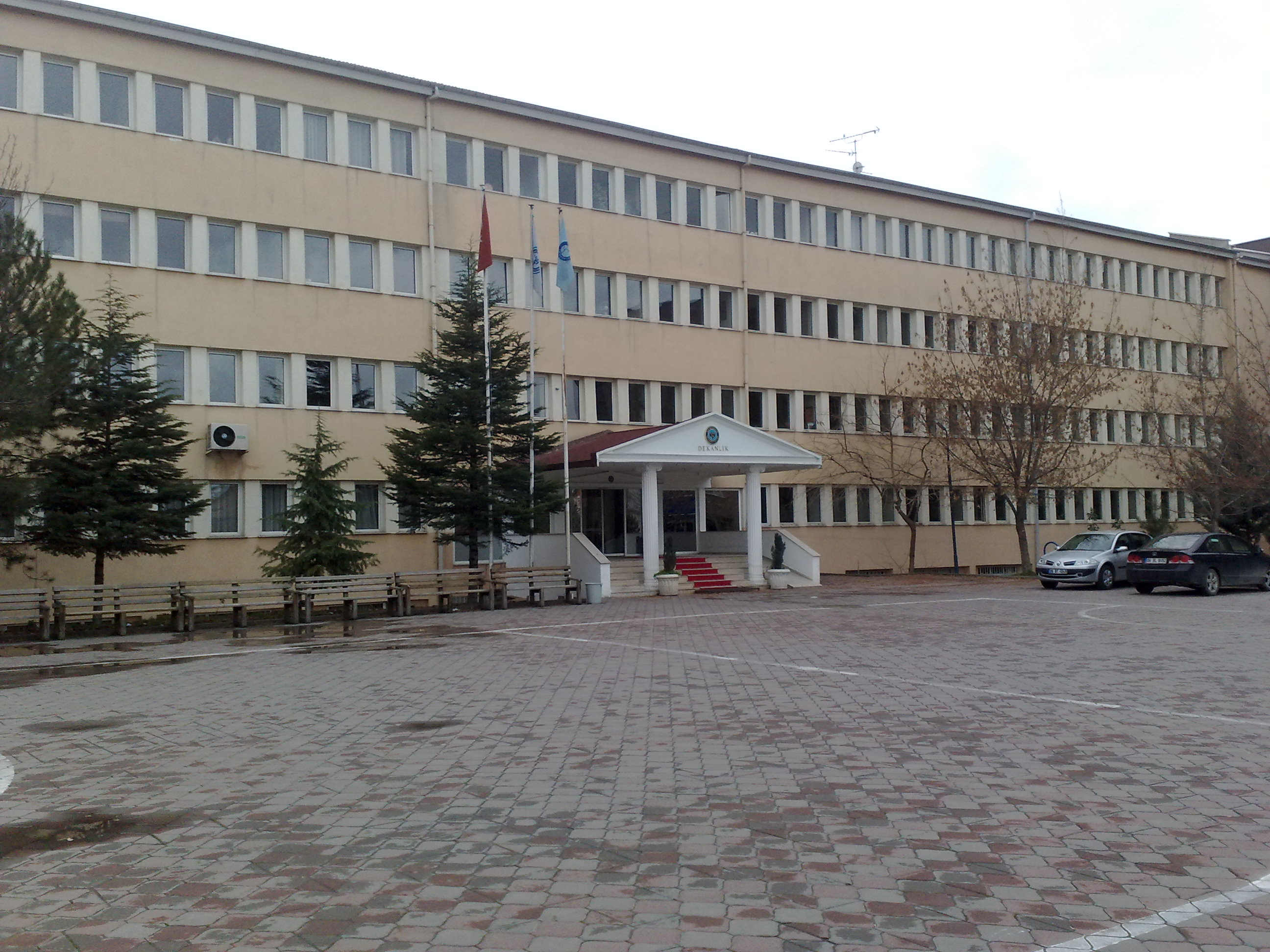 Gazi Üniversitesi Fen-Edebiyat Fakültesi dekanlığı.